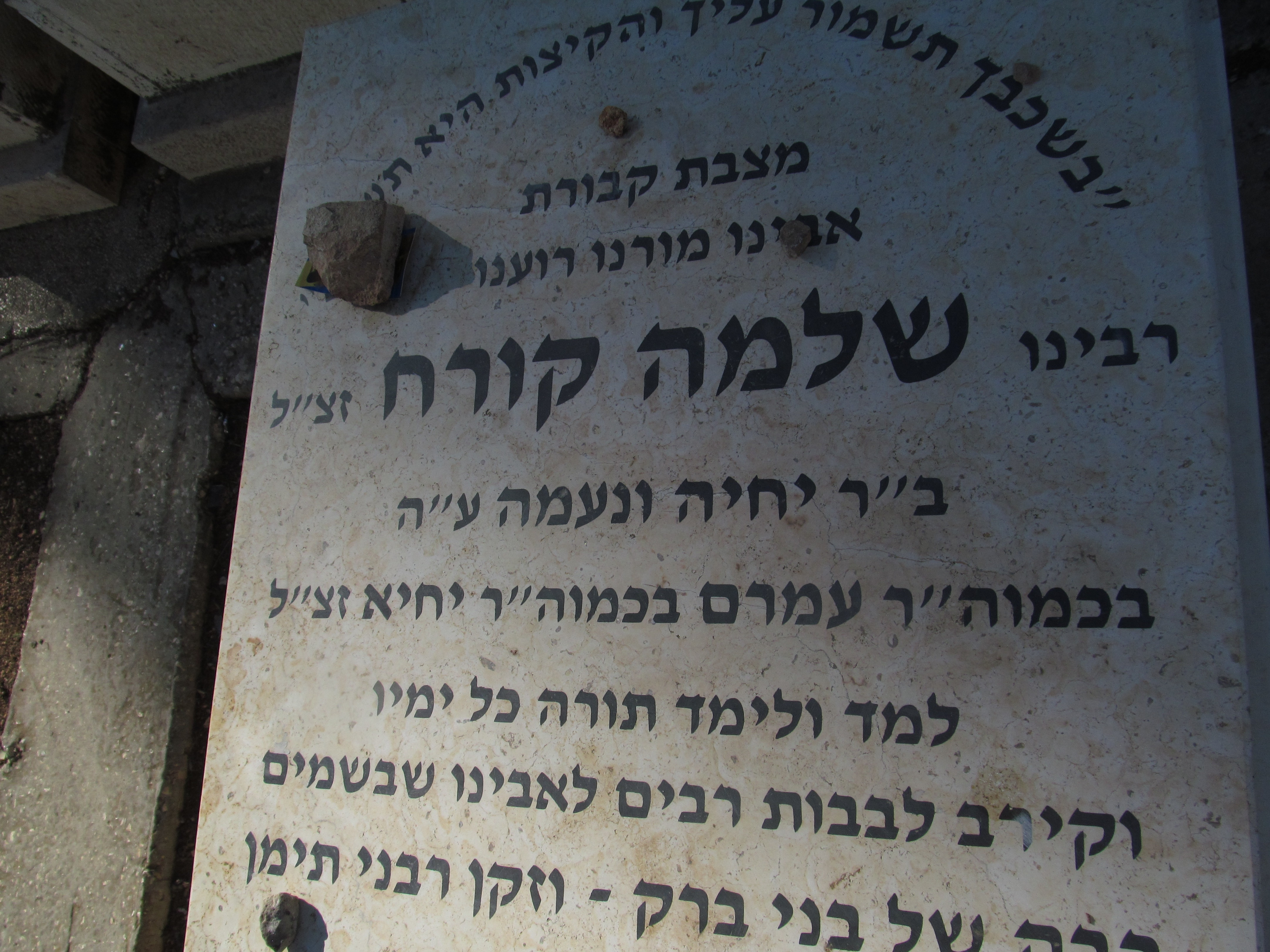 קבר הרב שלמה קורח The tomb of Rabbi Shlomo Korach